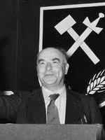 Otto Strasser giving a speech to his newly formed party, the German Social Union, a year after his return to Germany.